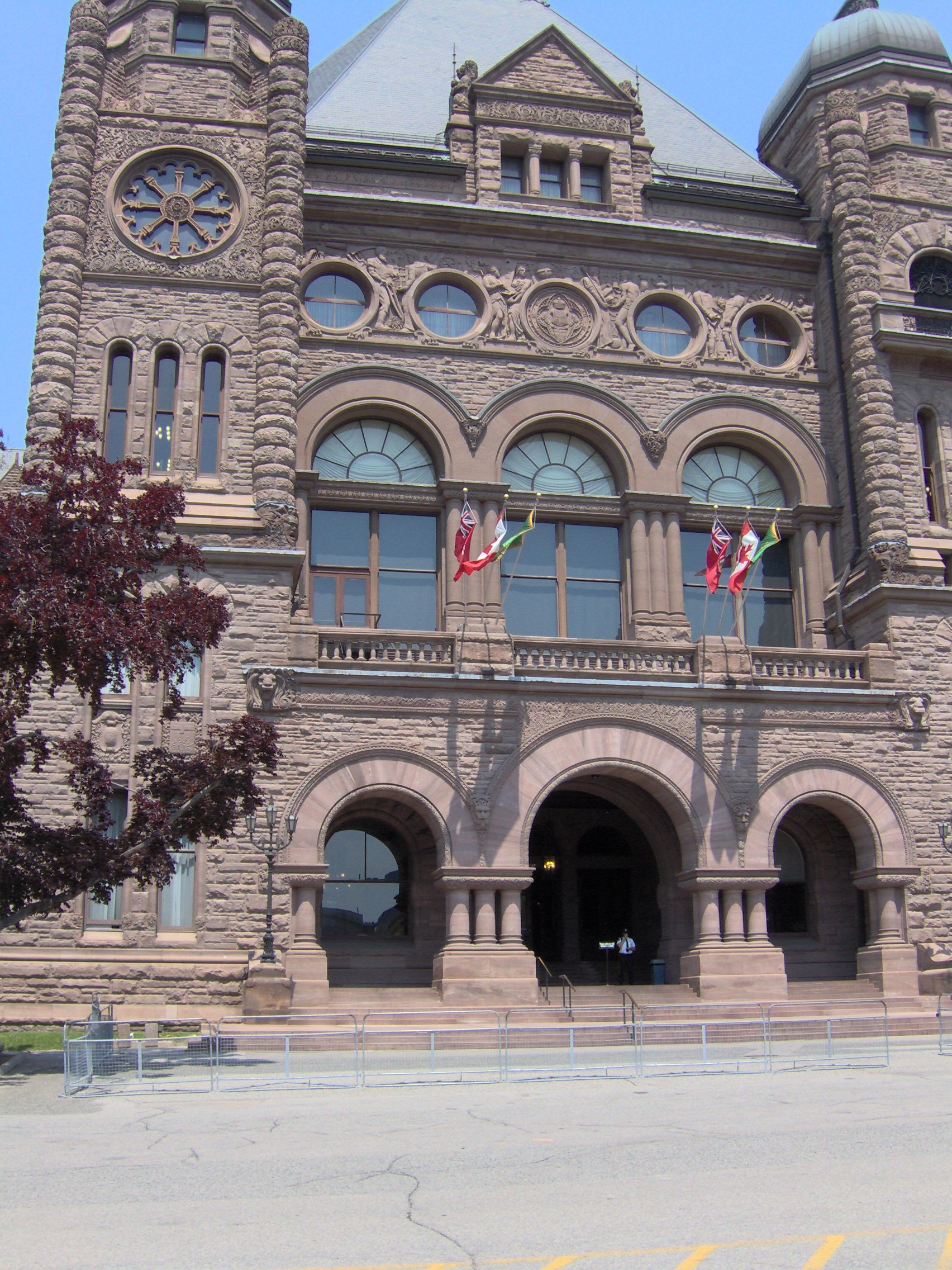 South entrance to the Ontario Legislative Building, Toronto, Canada.